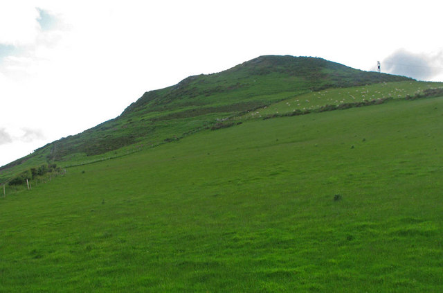 Pendinas Lochtyn hillfort The aspect is from the coastal trail atop the cliffs.